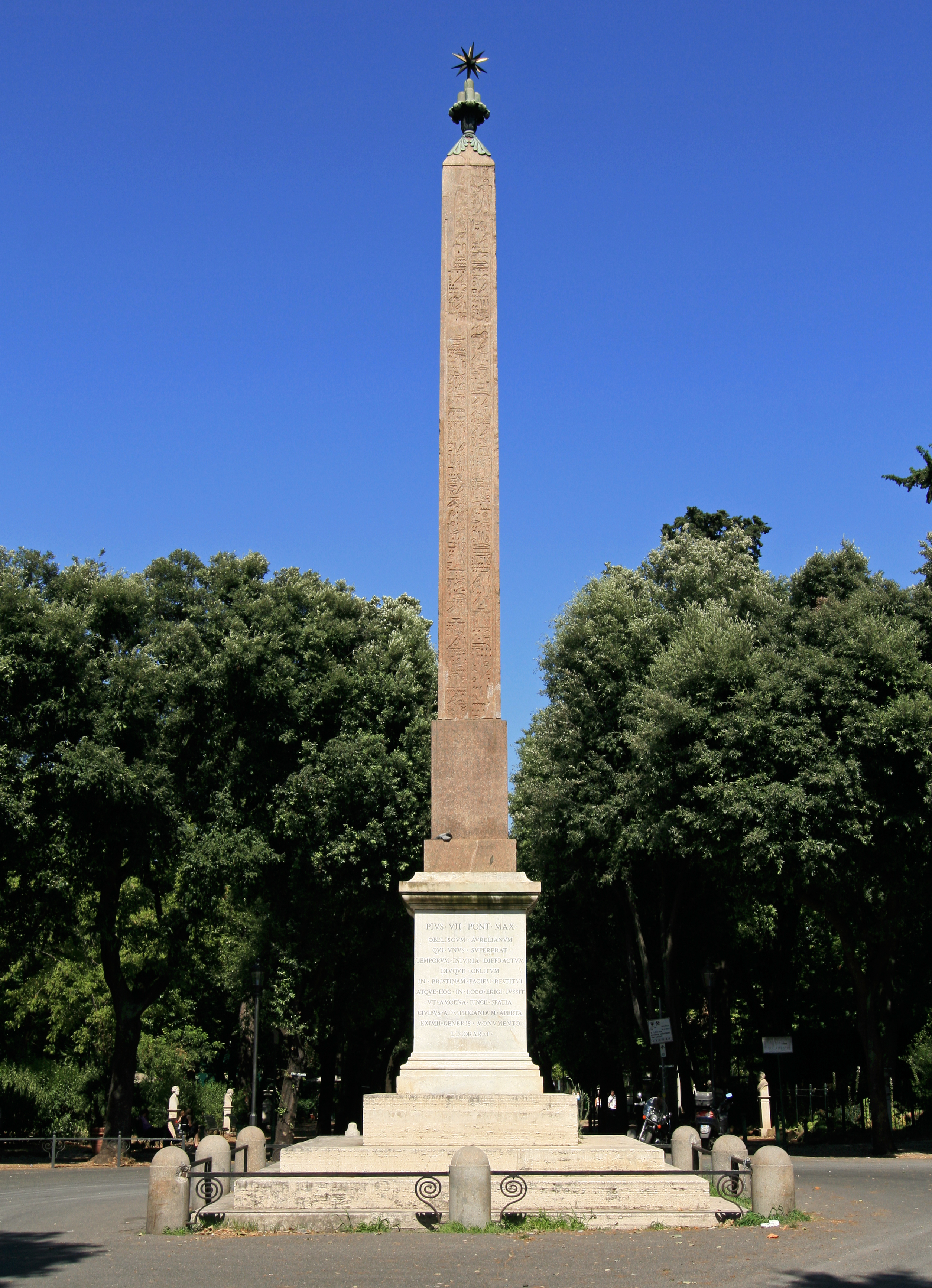 Antinous obelisk, Pincio, rome.